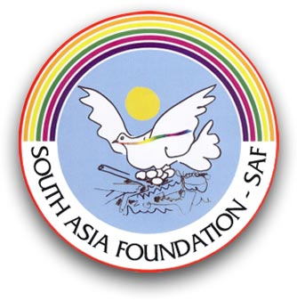 South Asia Foundation Being capacity of Director of the Foundation. The page of SAF has been updated correctly. For reference can visit the NGO site